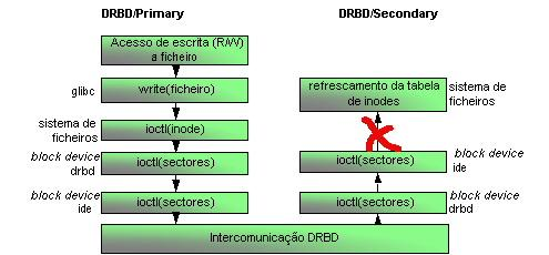 Description DRBD Concept Overview Source/Author Nuno Tavares